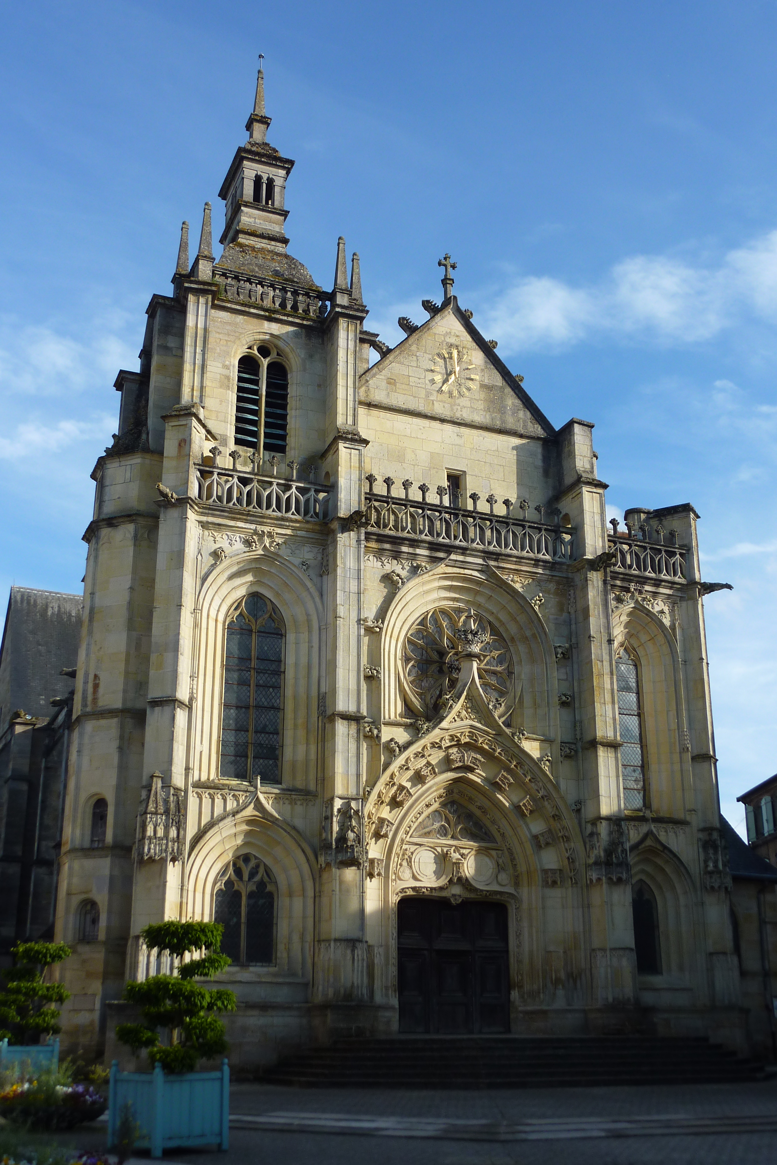 Frontage of Saint-Etienne Church in Bar-le-Duc.